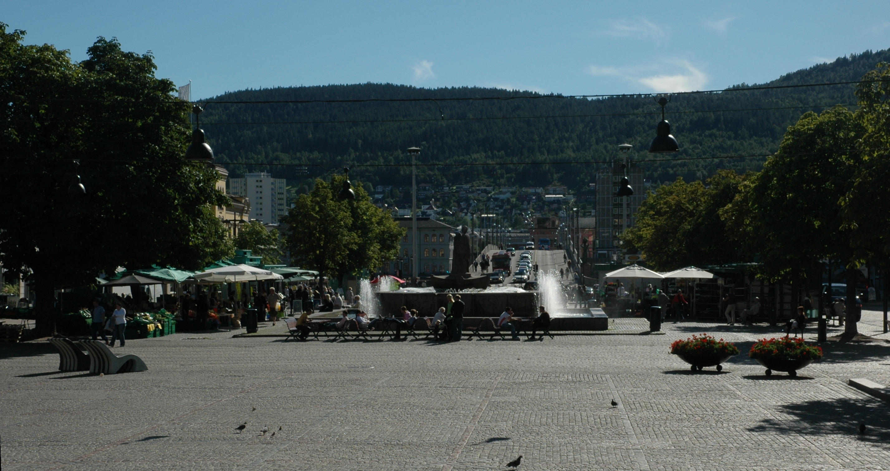 View from Bragernes square towards Strømsø, over the city bridge.